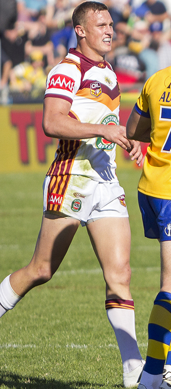 2015 City vs Country Origin match at McDonalds Park in Wagga Wagga.